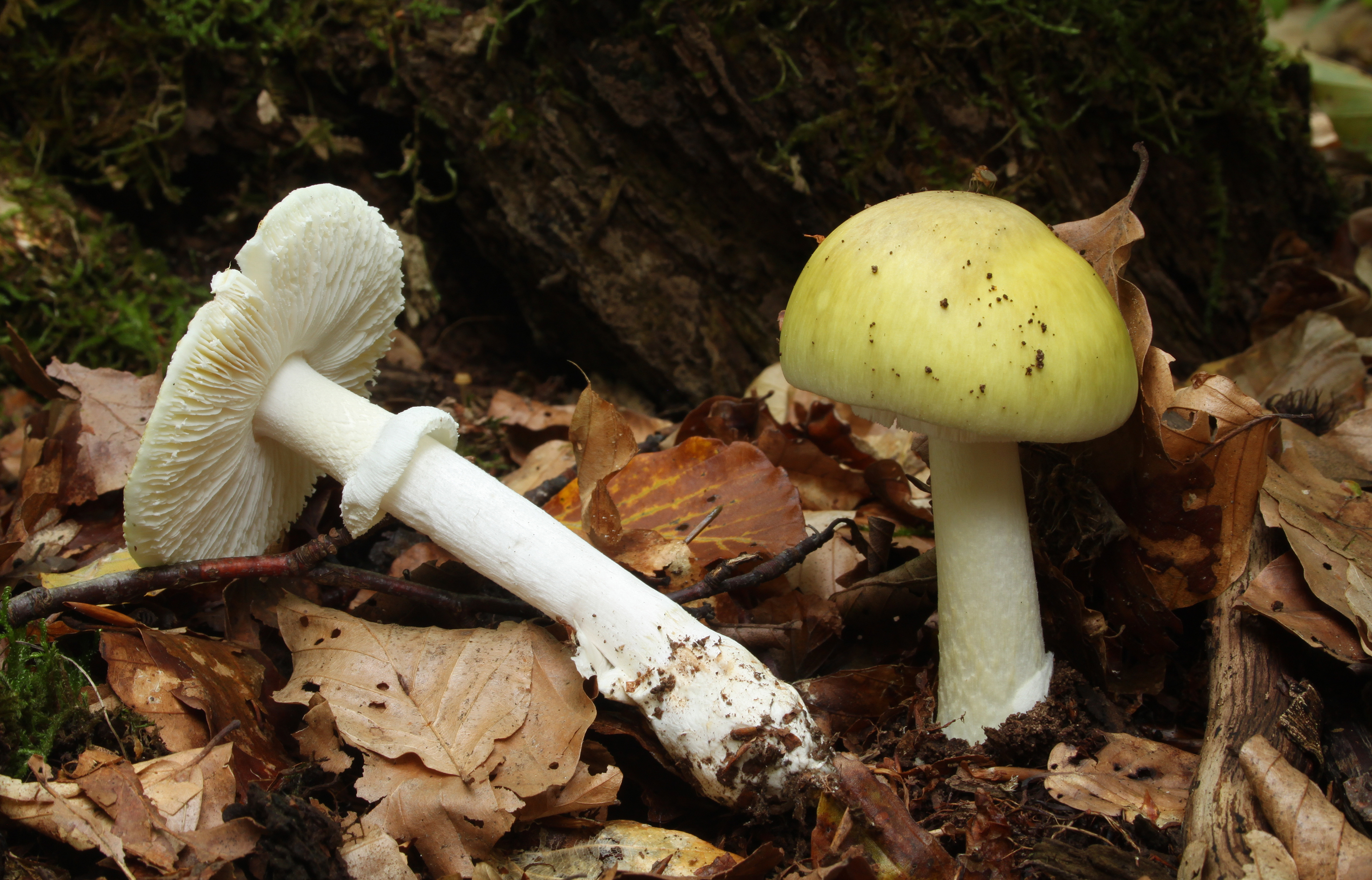 Death Cap, Amanita phalloides, Family: Amanitaceae, Location: Germany, Erbach, Ringingen